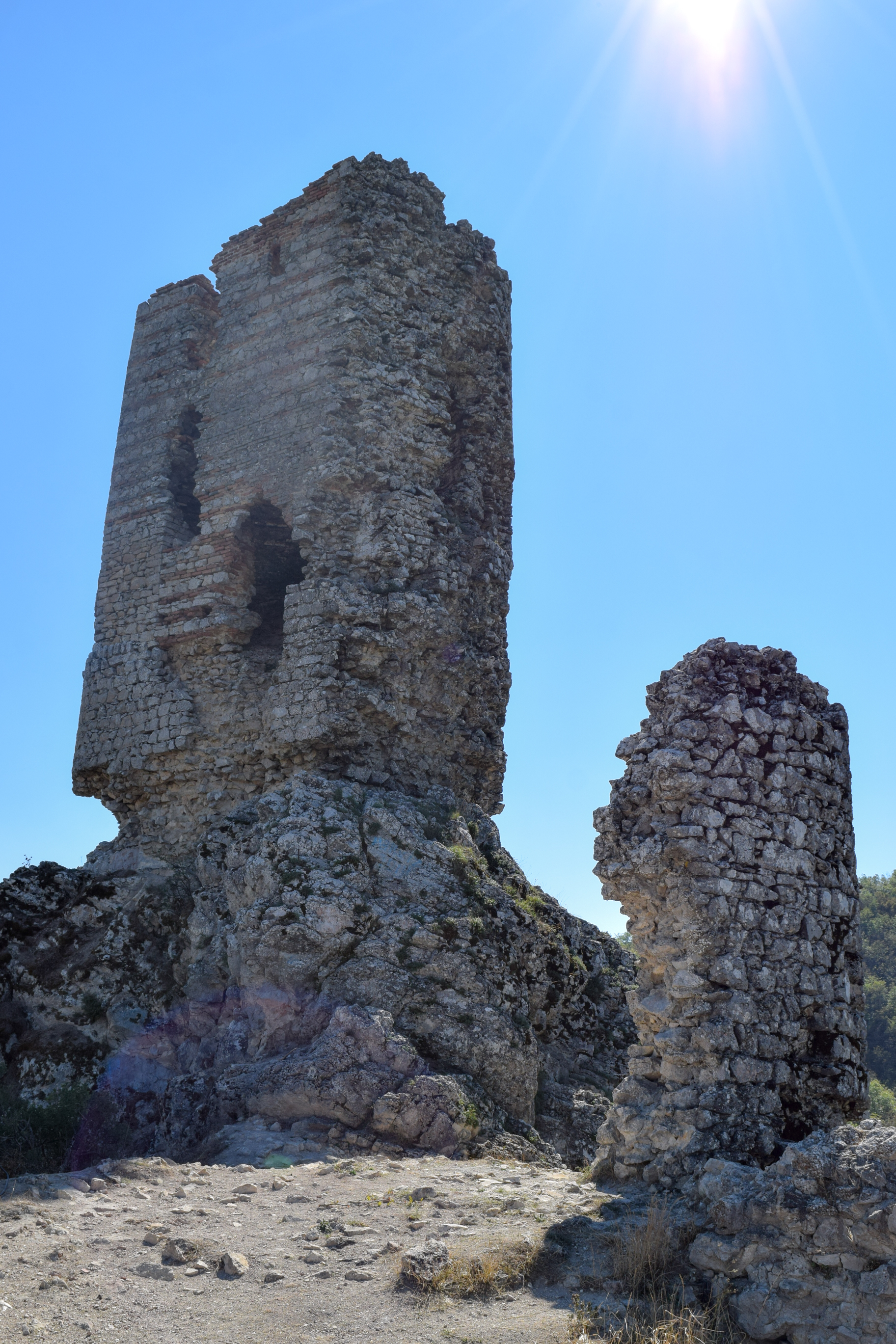 Chirag Gala close up view from the northeast